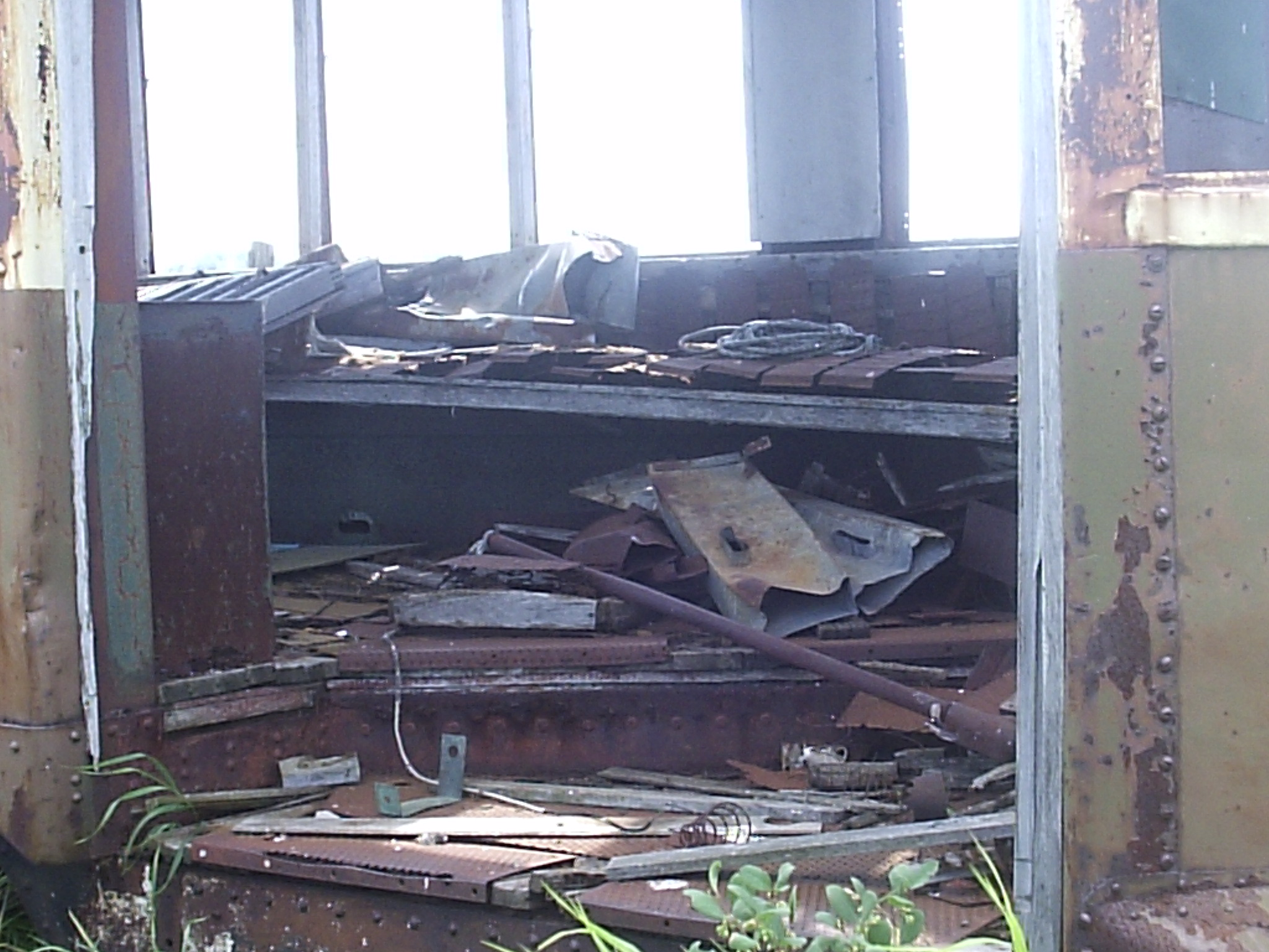 The interior of Saskatoon Municipal Railway streetcar No.203 at Saskatchewan Railway Museum.